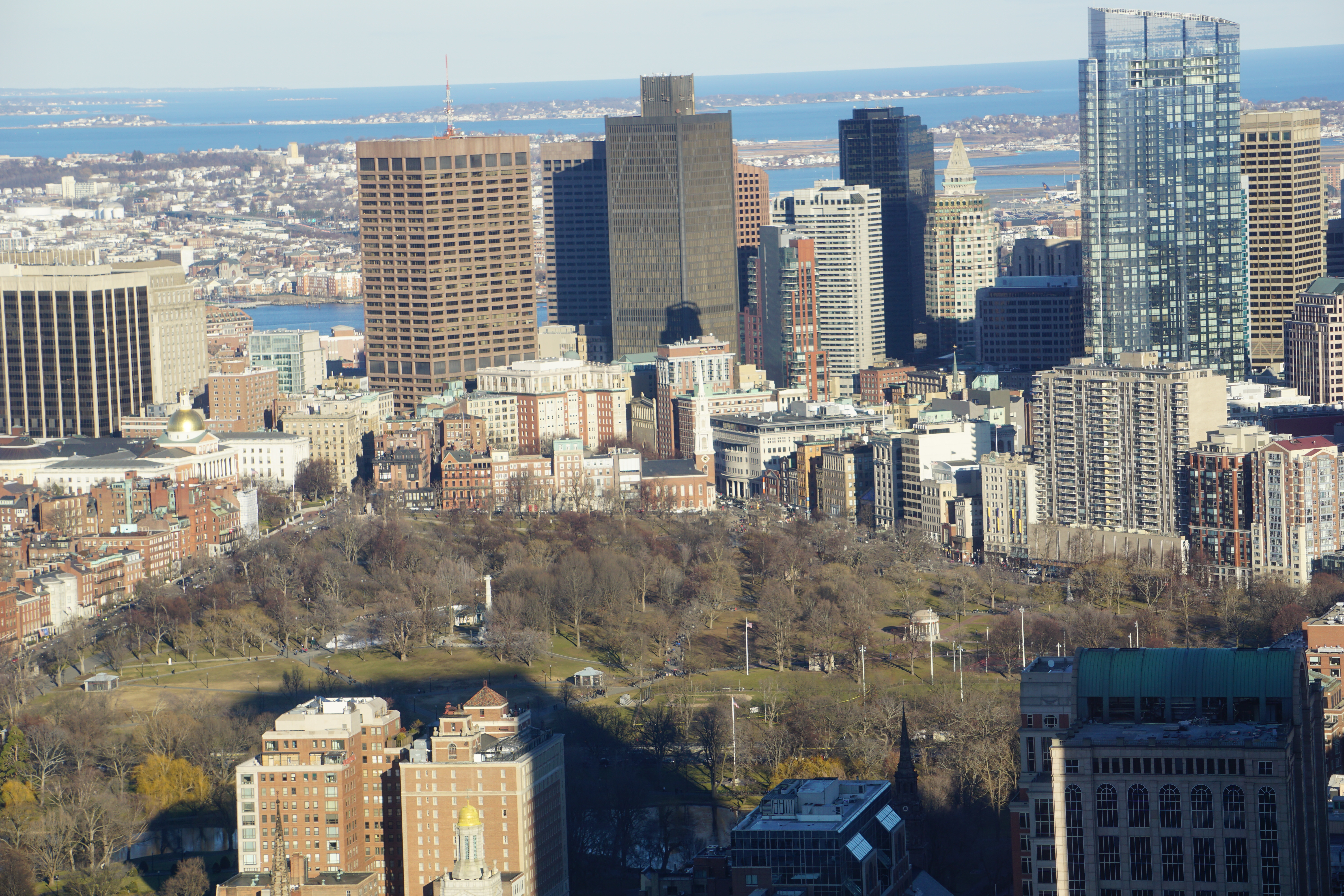 Boston Common and its surroundings on January 15, 2017 from the Prudential Center observatory skywalk